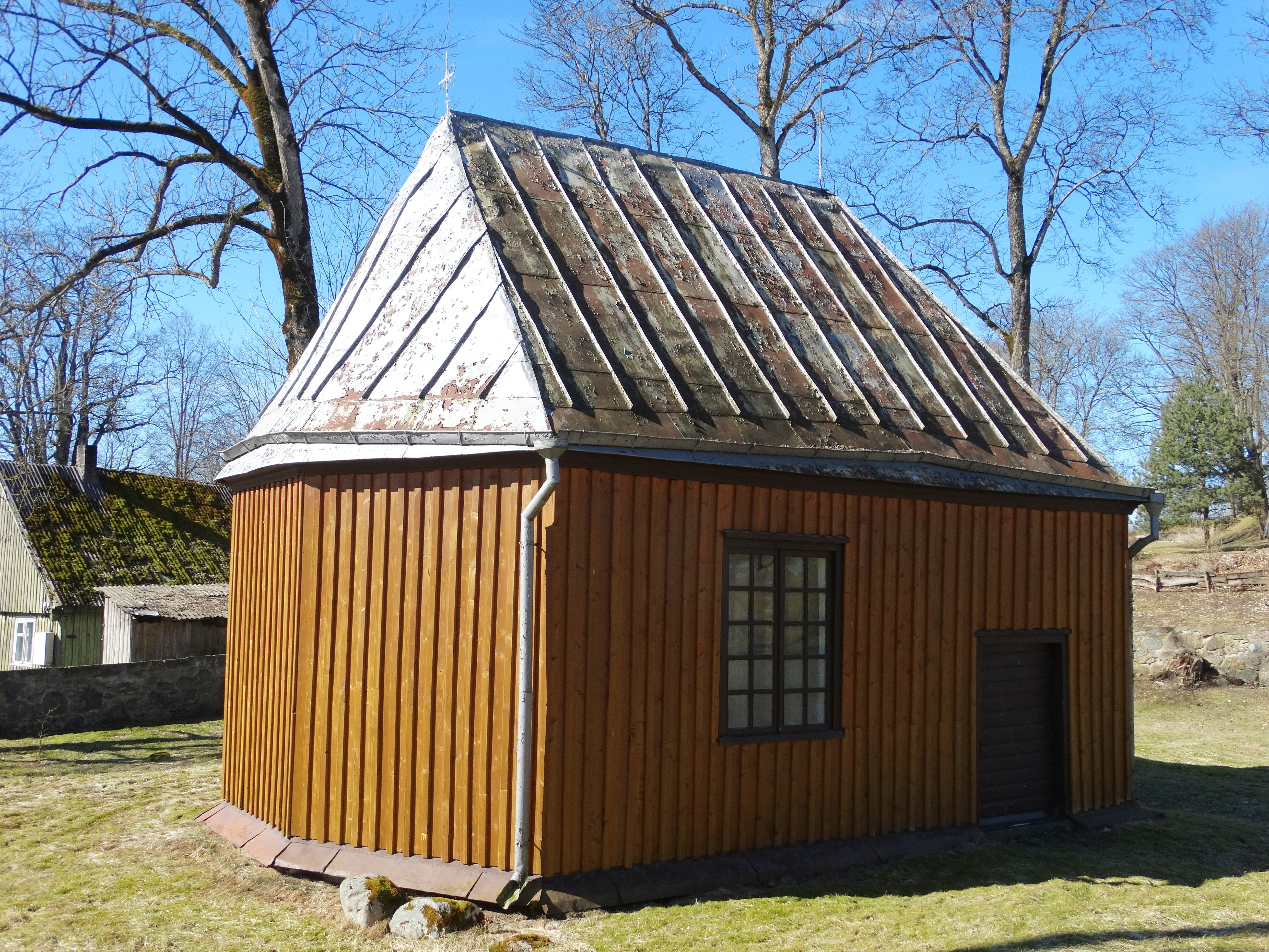 Alsėdžiai churchyard chapel, Plungė District, Lithuania